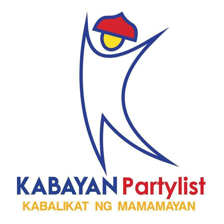 Official Logo Of Kabayan Partylist